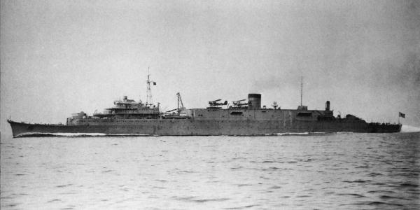 IJN Tsurugizaki.